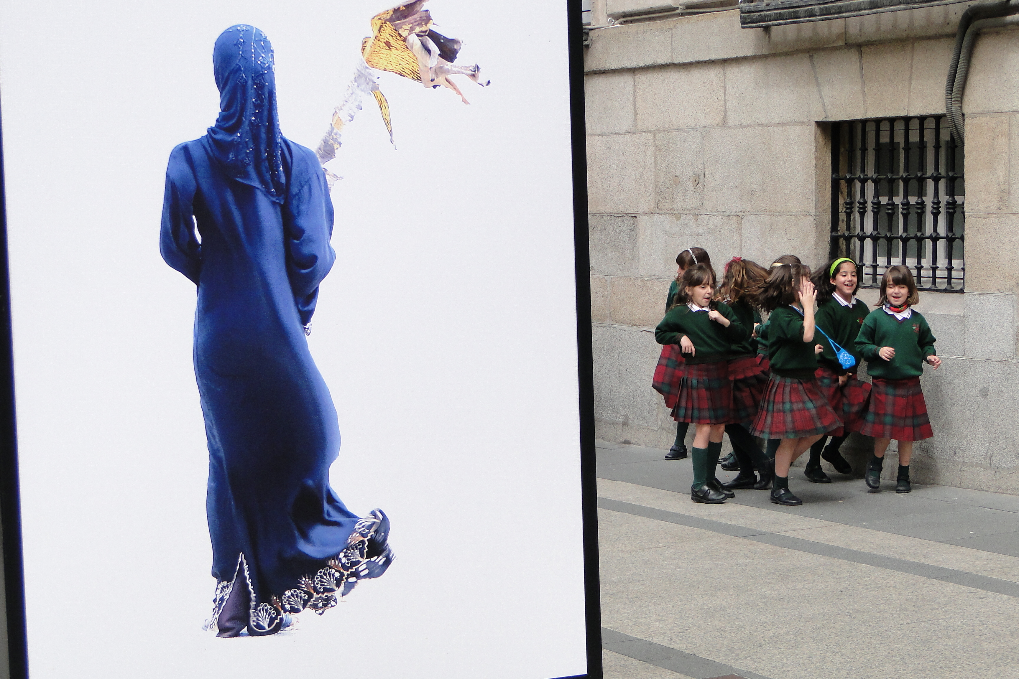 Street Scene with Gleeful Schoolkids - Incorporating Photograph by Angèle Etoundi Essamba - Madrid, Spain